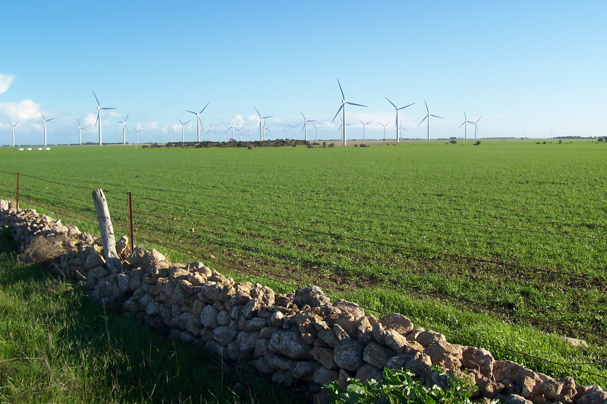 Wattle Point wind farm near Edithburgh, South Australia Source: Photographer:Scott Davis